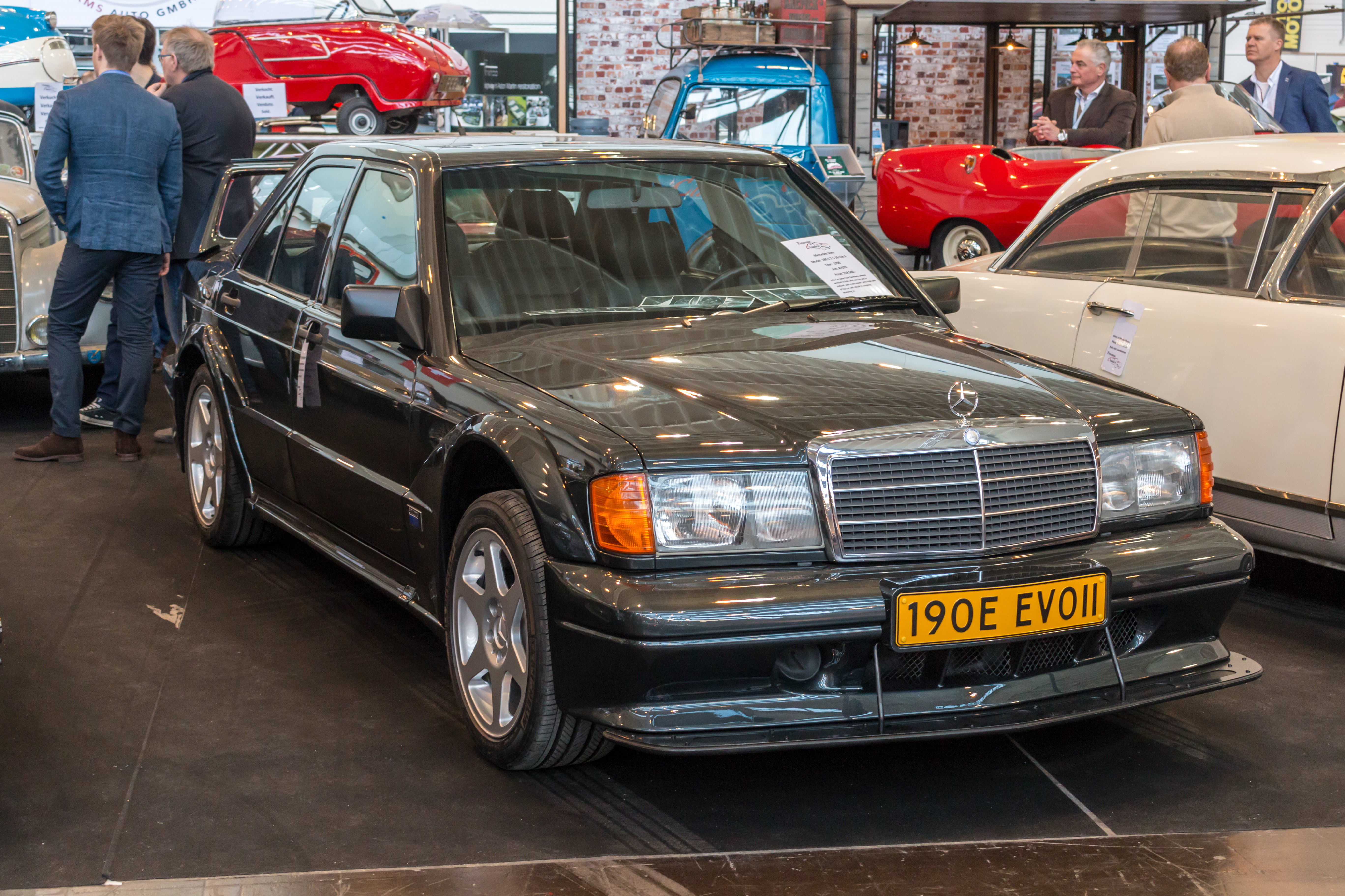 Techno Classica 2018, Essen